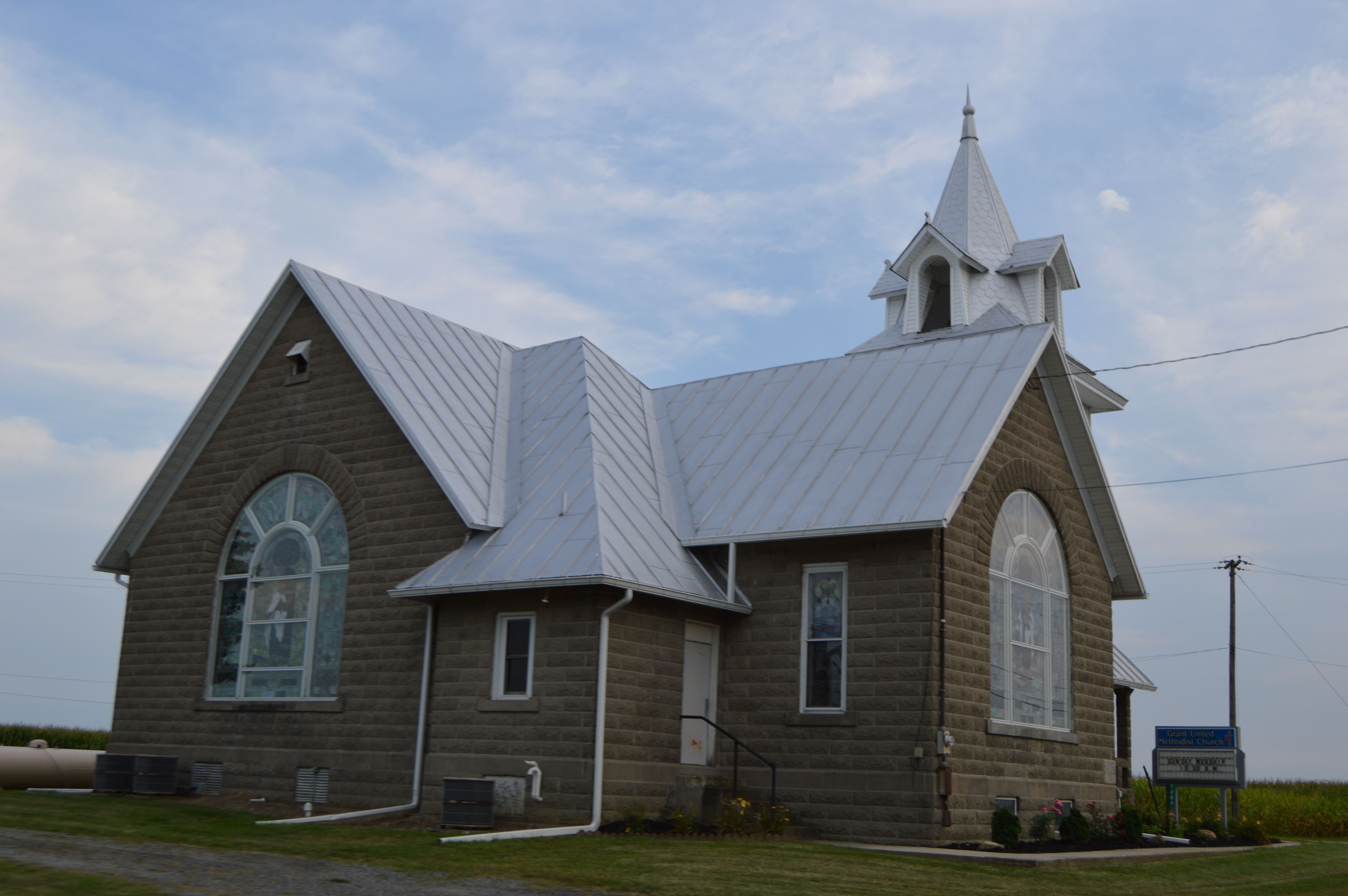 Northern side and front of the Grant United Methodist Church, located at the junction of State Route 53 and County Road 84 in Pleasant Township, Hardin County, Ohio, United States. It was built in 1907.